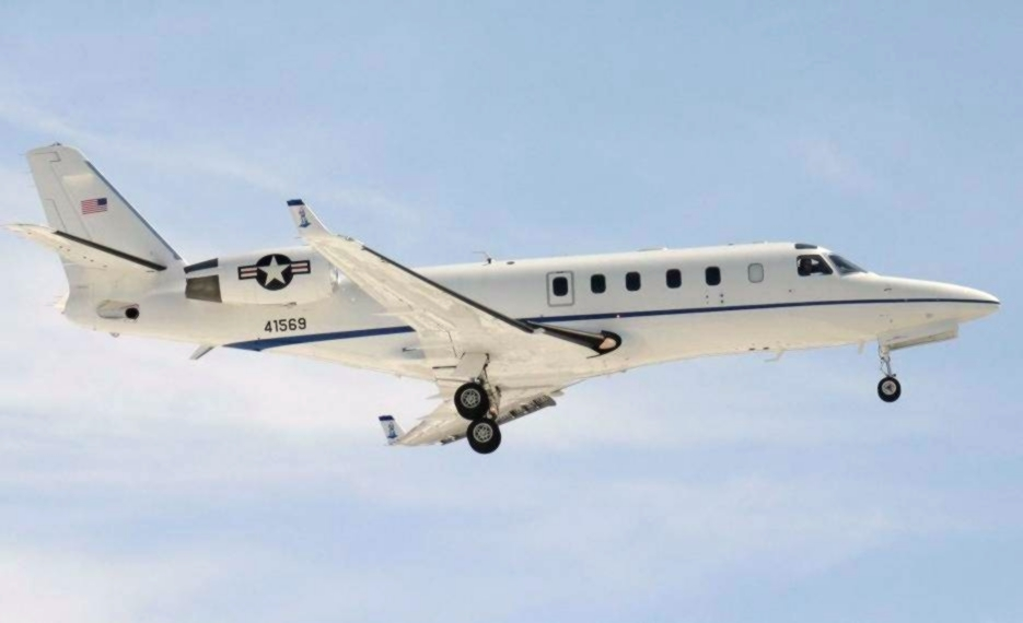 A U.S. Air Force Galaxy Aerospace (IAI) C-38A Courier (s/n 94-1569) of the 113th Wing, District of Columbia Air National Guard, in flight.